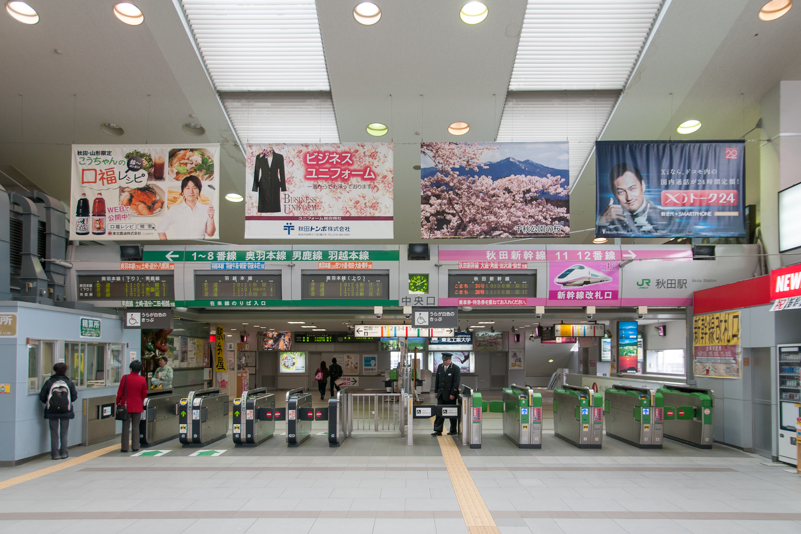 The central ticket barrier entrance and concourse at Akita Station